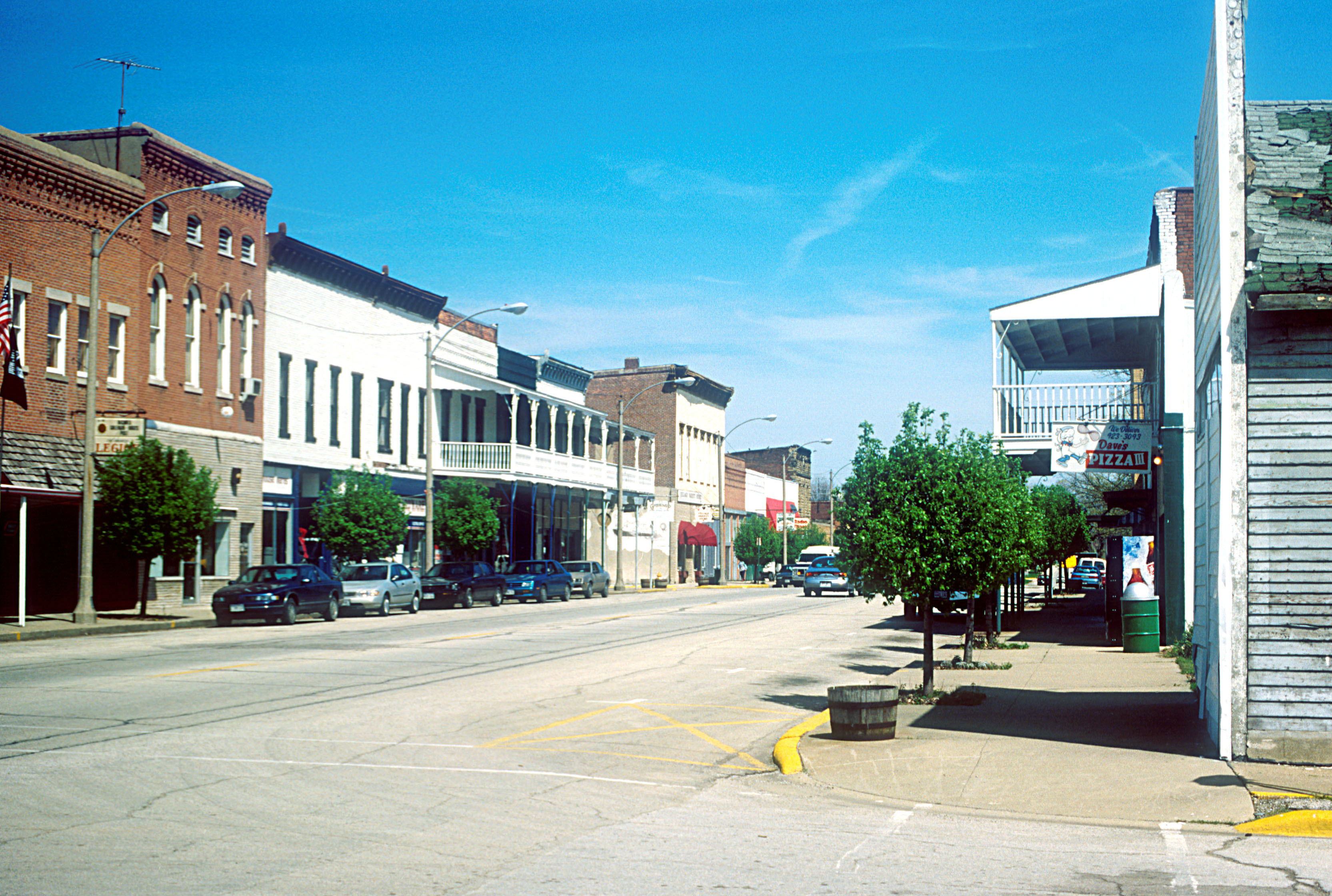 Business district of Greenup, Illinois on the Cumberland Road. This section, still named Cumberland Street through Greenup, is now part of Illinois Route 121. Original caption: "The quaint business district of Greenup, Illinois lines the street with 19th century overhanging porches."